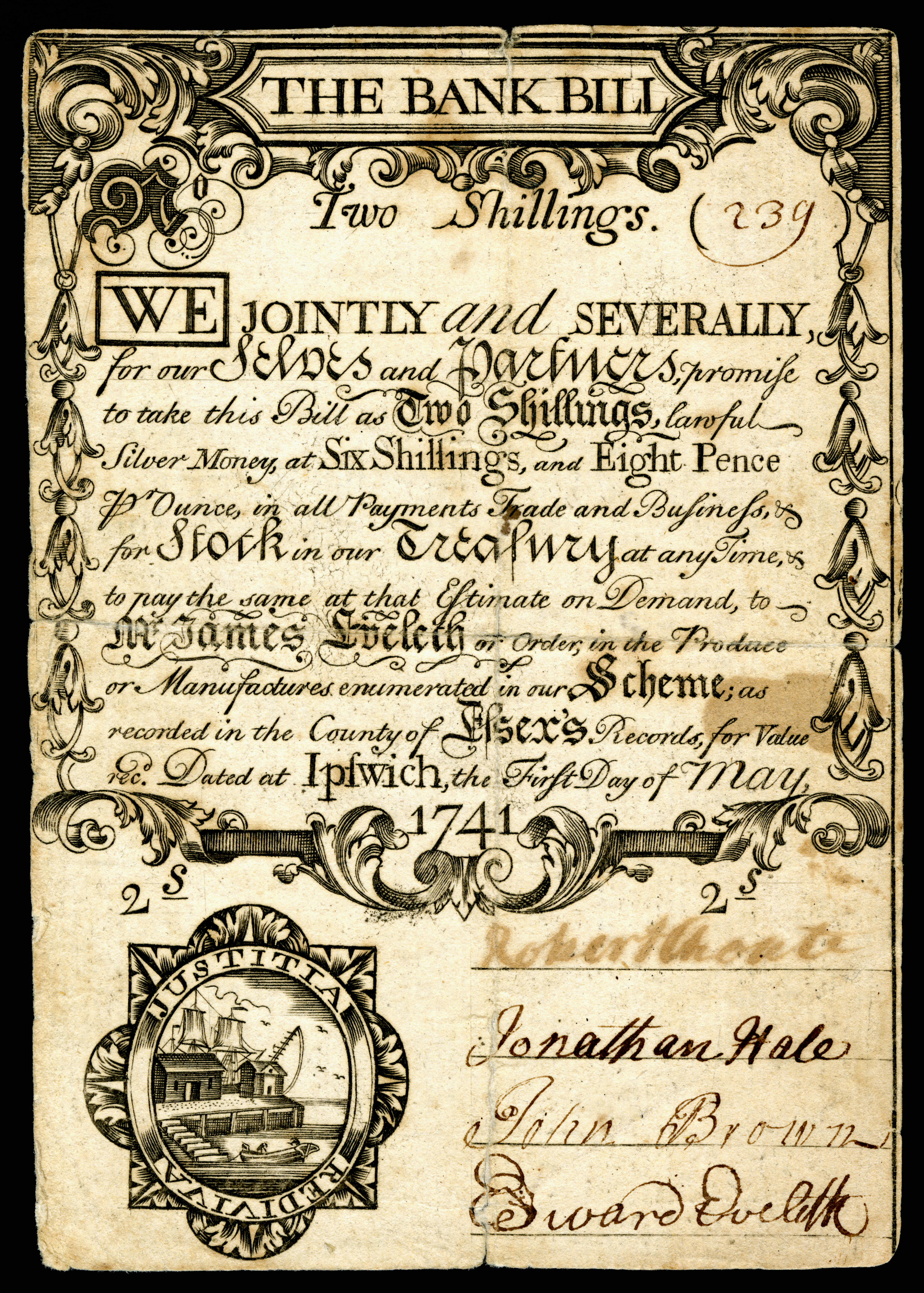 2s Colonial currency from the Province of Massachusetts Bay. Dated 1 May 1741, signed by Robert Choate, Jonathan Hale, John Brown, and Edward Eveleth. Endorsed by James Eveleth (rev). (Friedberg Colonial ref# MA-87.15).